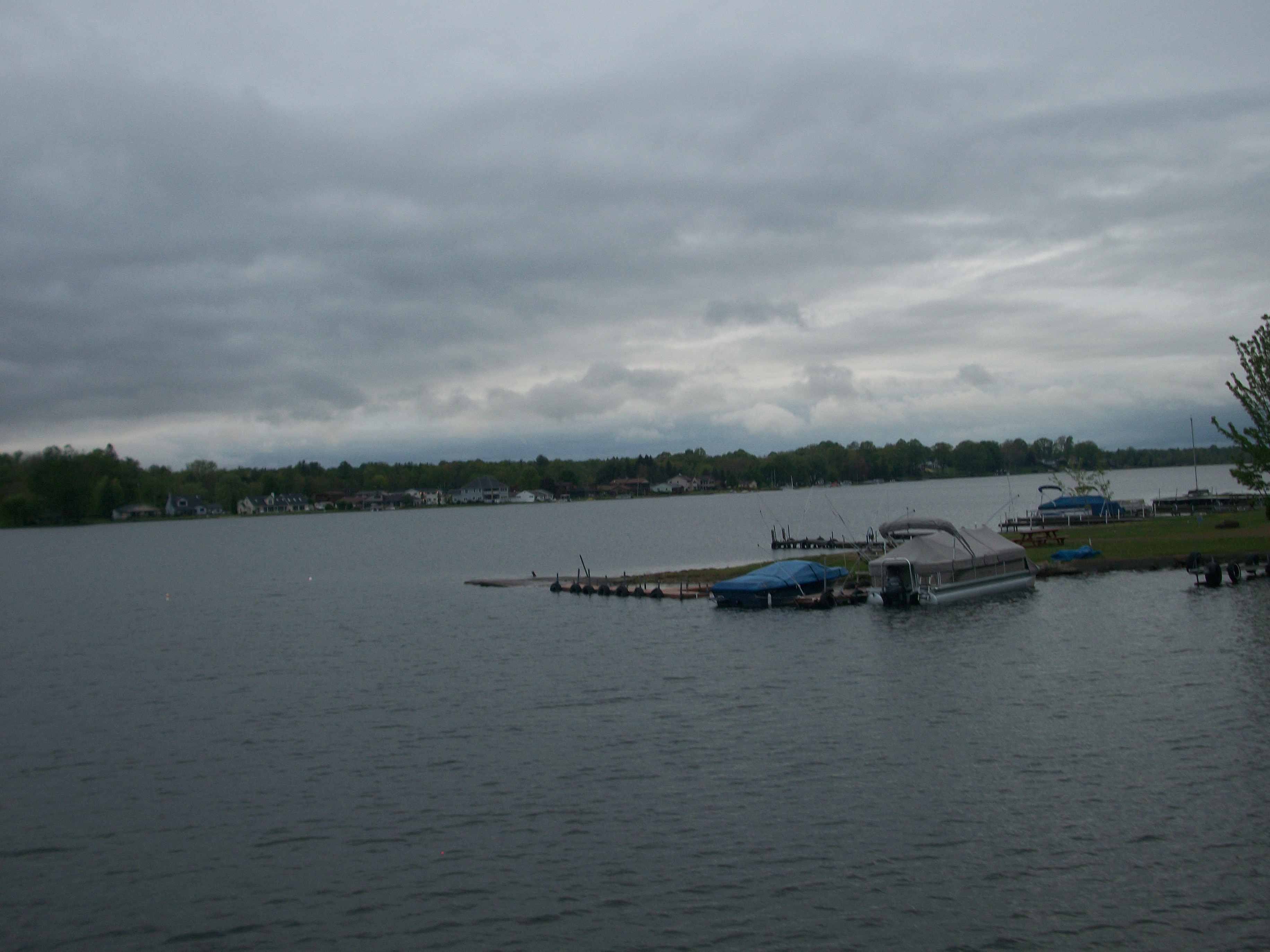 Taken May 18, 2010.